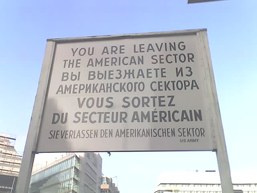 The sign at Checkpoint Charlie indicating the crossover from West to East Berlin.